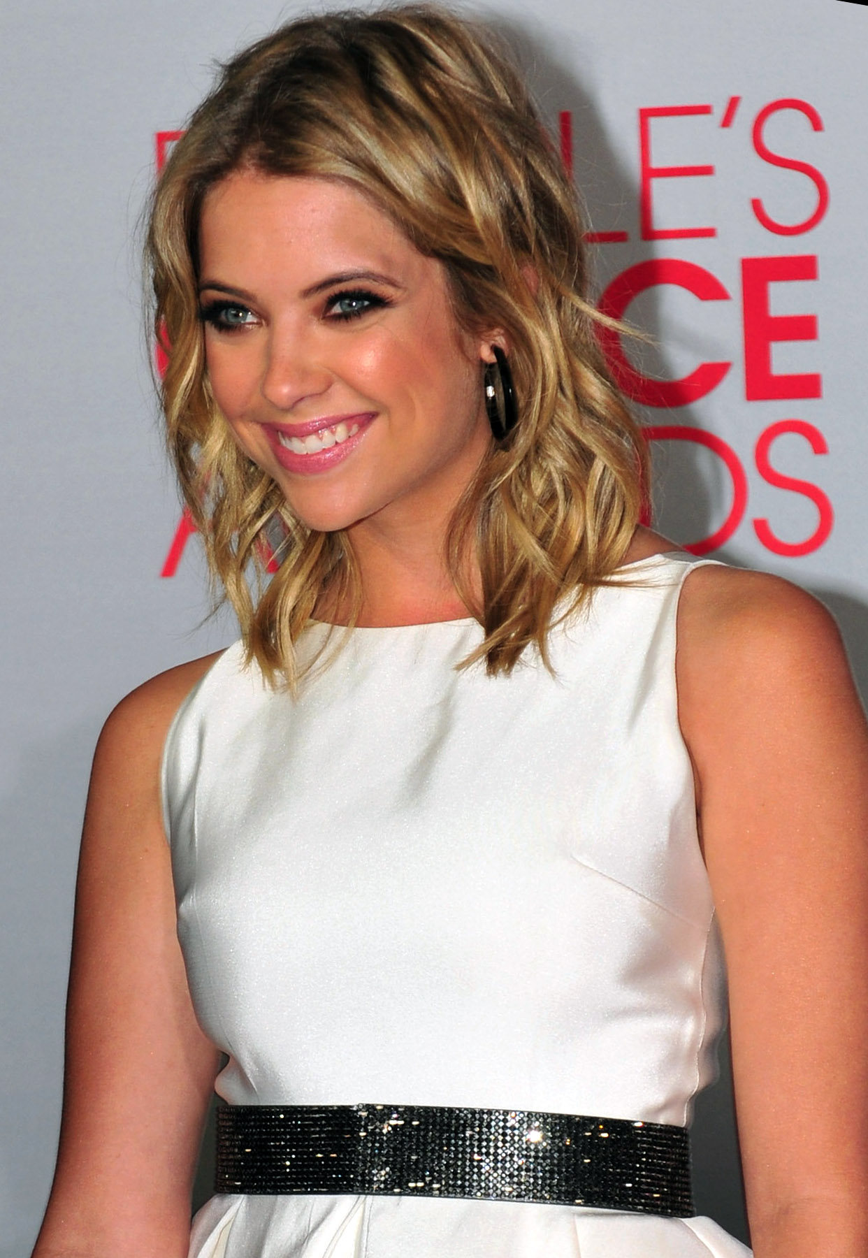 Ashley Benson at the 38th People's Choice Awards, Red Carpet 2012.